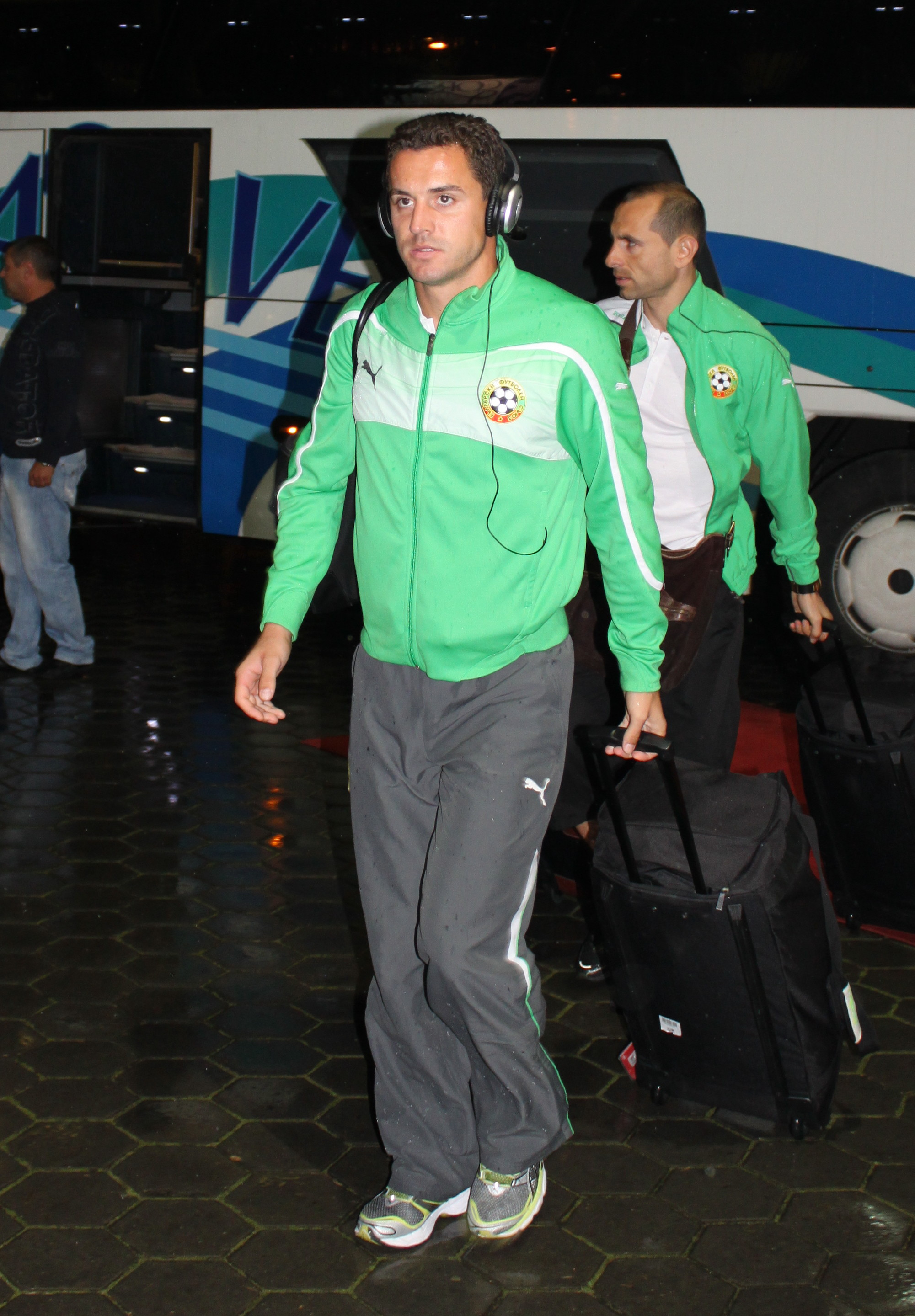 Dimitar Rangelov (Bulgarian: Димитър Рангелов, born 7 March 1983) is a Bulgarian football striker who currently plays for Maccabi Tel Aviv on loan from Borussia Dortmund and the Bulgarian national team.